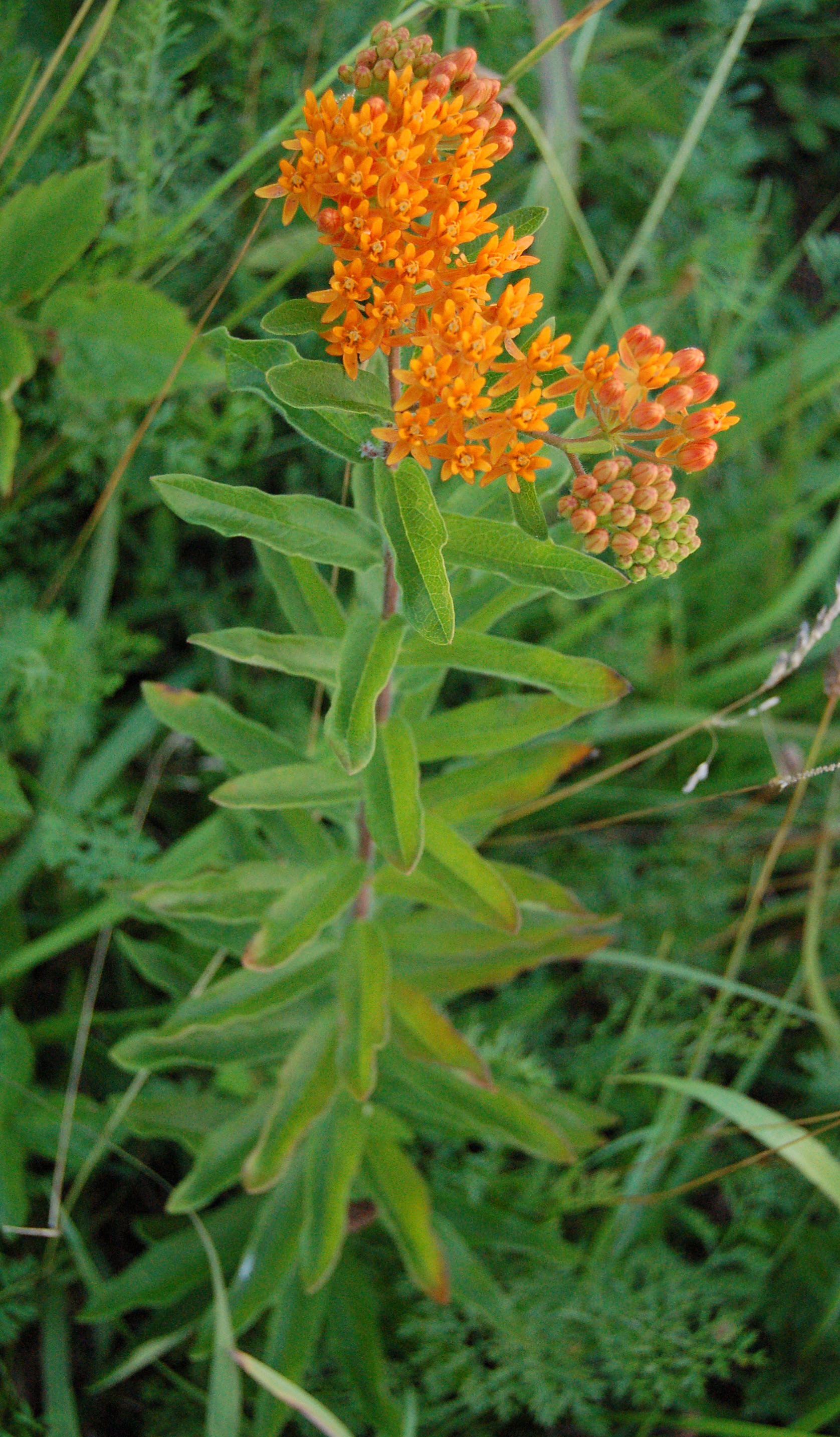 An entire Butterfly weed (Asclepias tuberosa) plant from the ground to the flower. It shows the characteristic blooming flowers, hairy stem, and is within 1 to 2 feet tall. Photo taken in Chester County, Pennsylvania. Photo was a handheld shot.